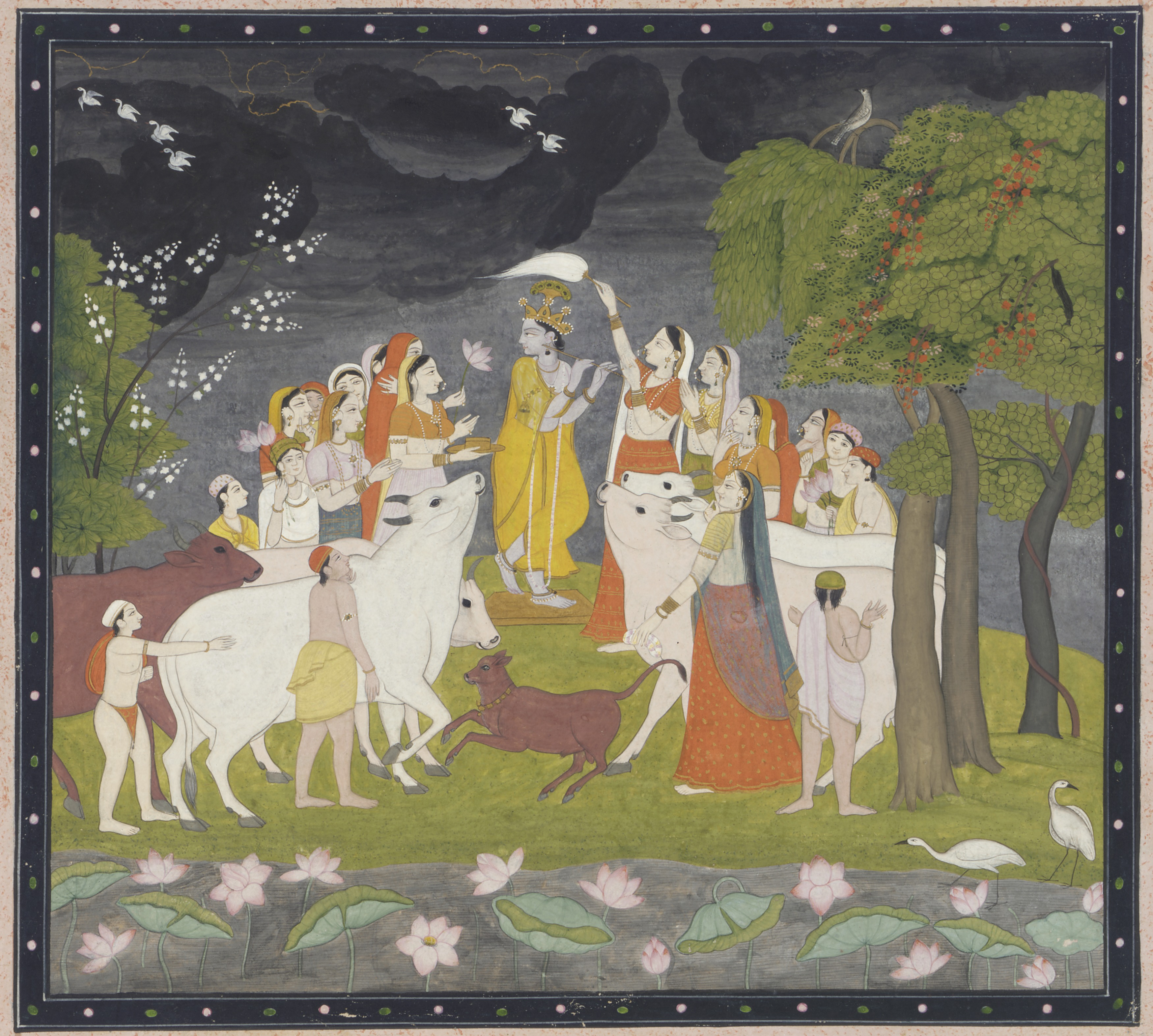 Sri Krsna with the flute Opaque watercolor and gold on paper H: 20.9 W: 23.0 cm Guler / Kangra region, India